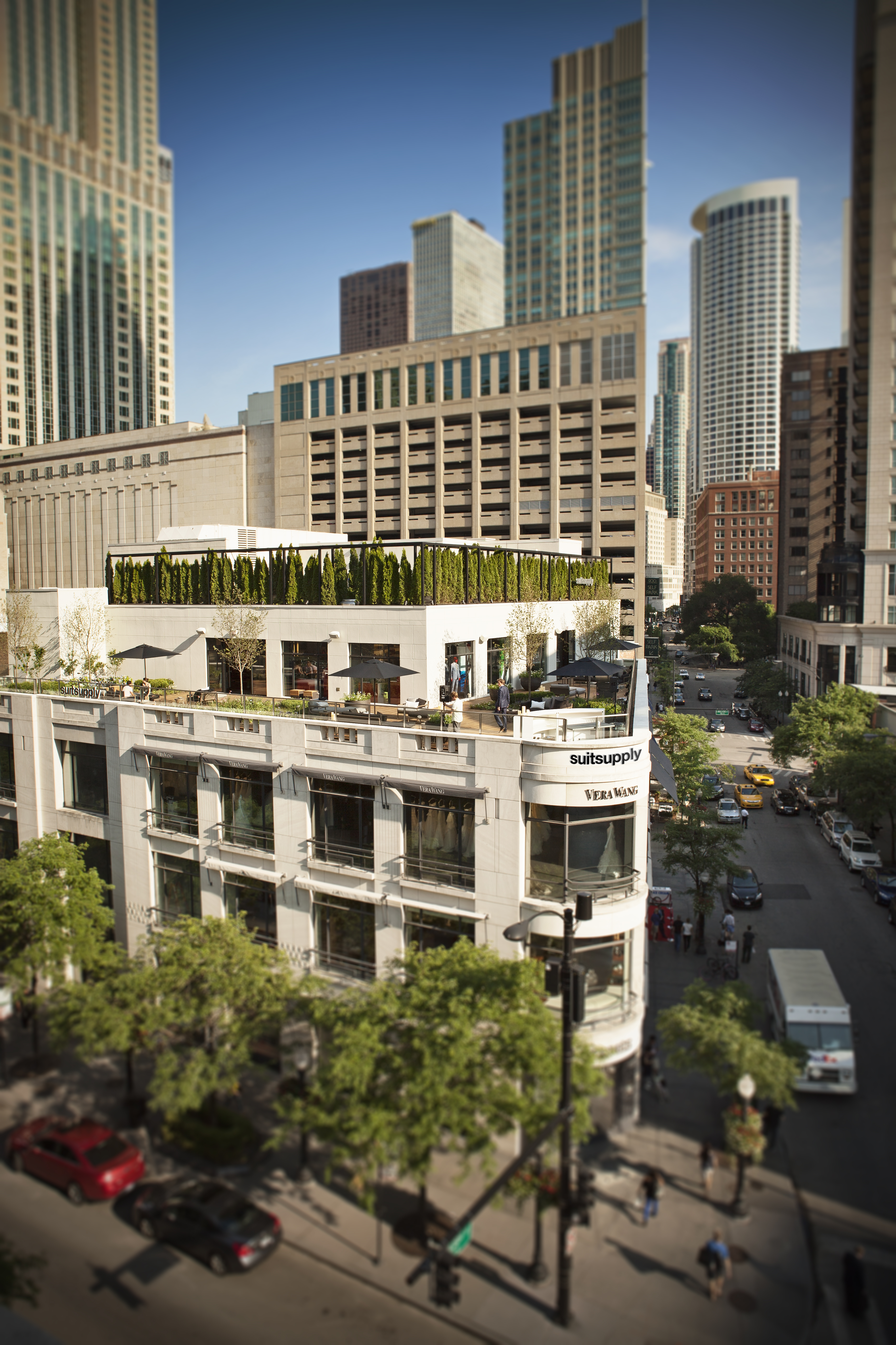 Suitsupply Chicago Store Rooftop Terrace - view from outside